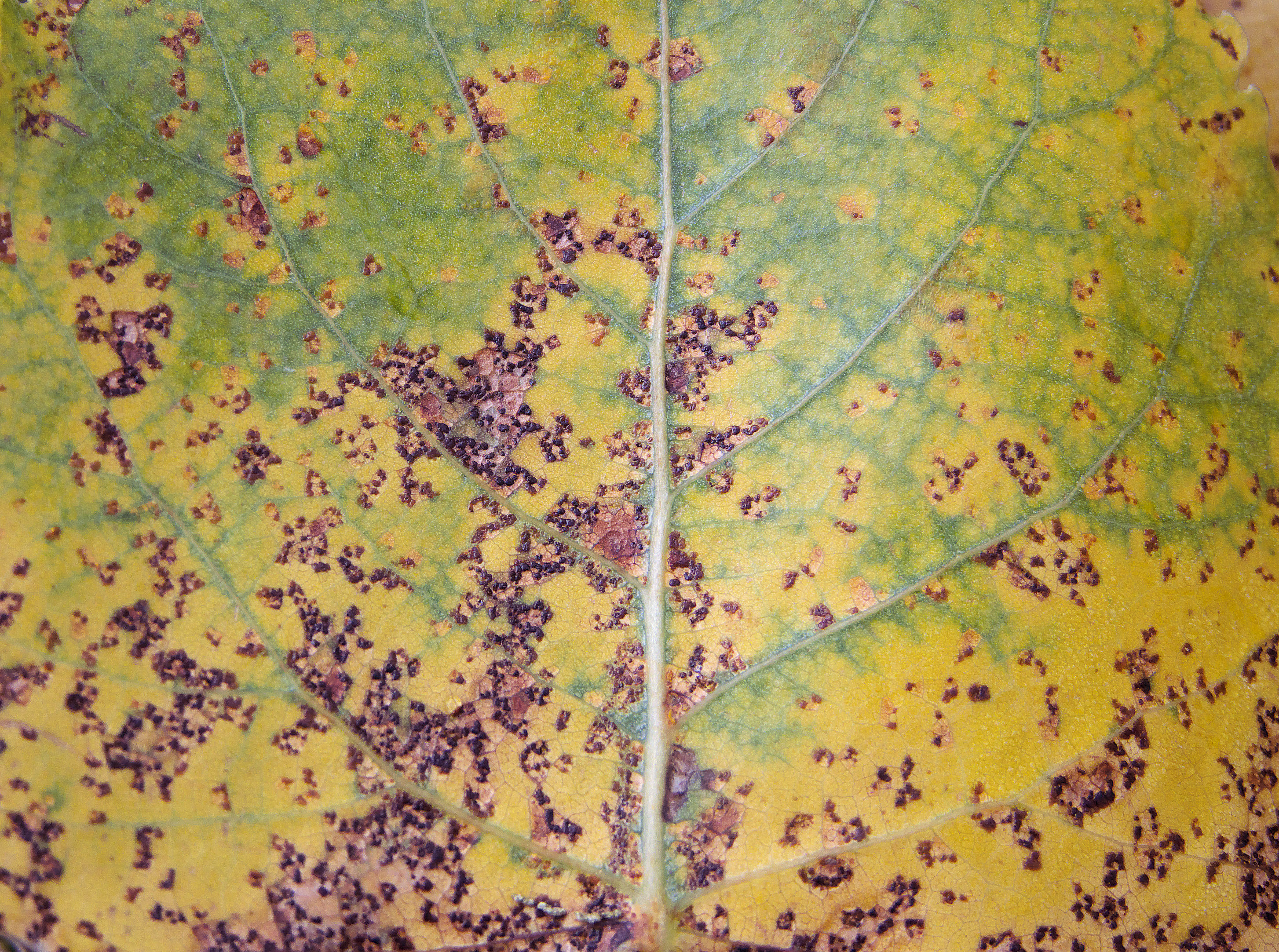 Populus ×canadensis, Melampsora larici-populina telia on the upper leaf surface